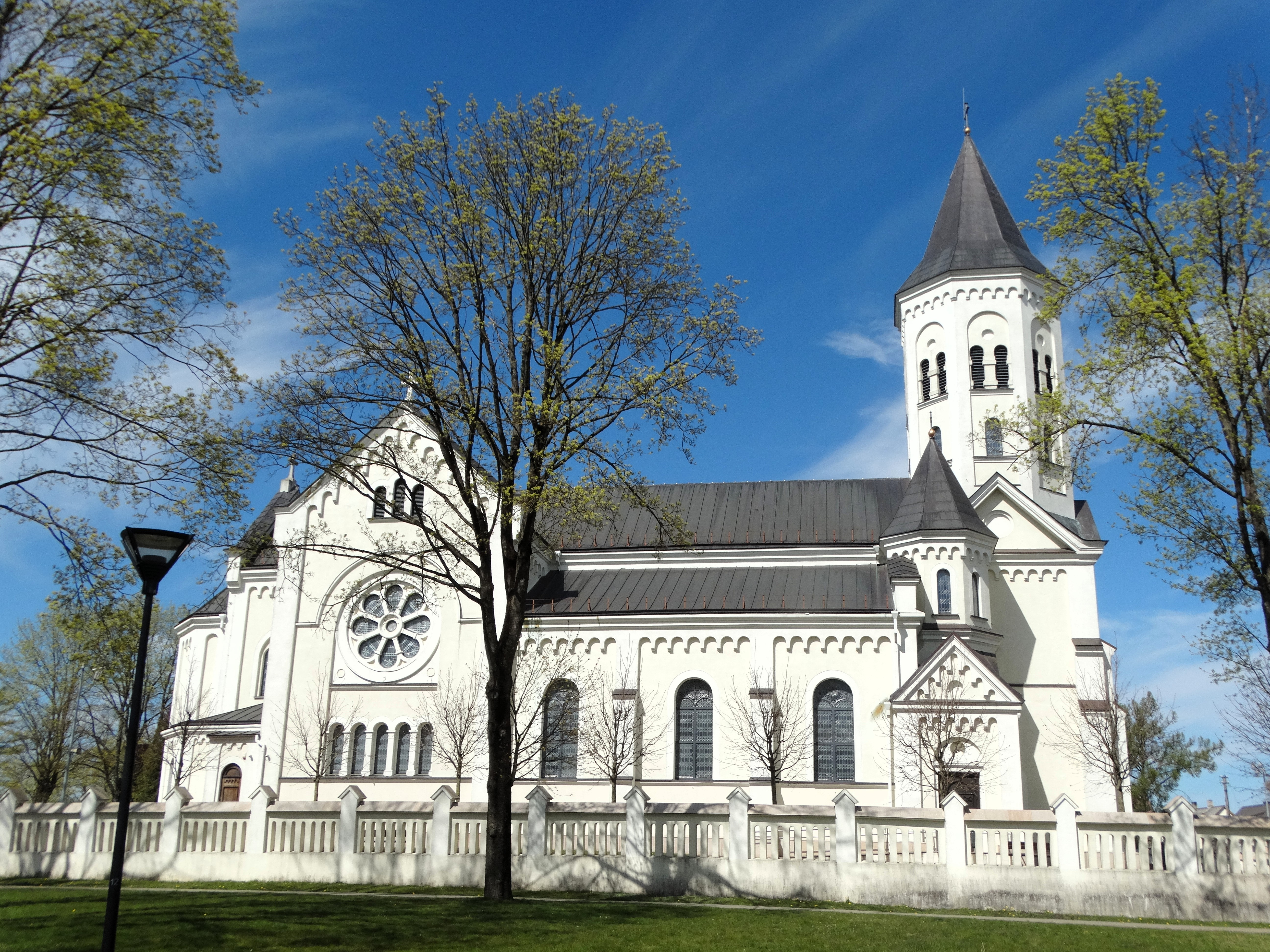 Catholic Church, Tauragė, Lithuania